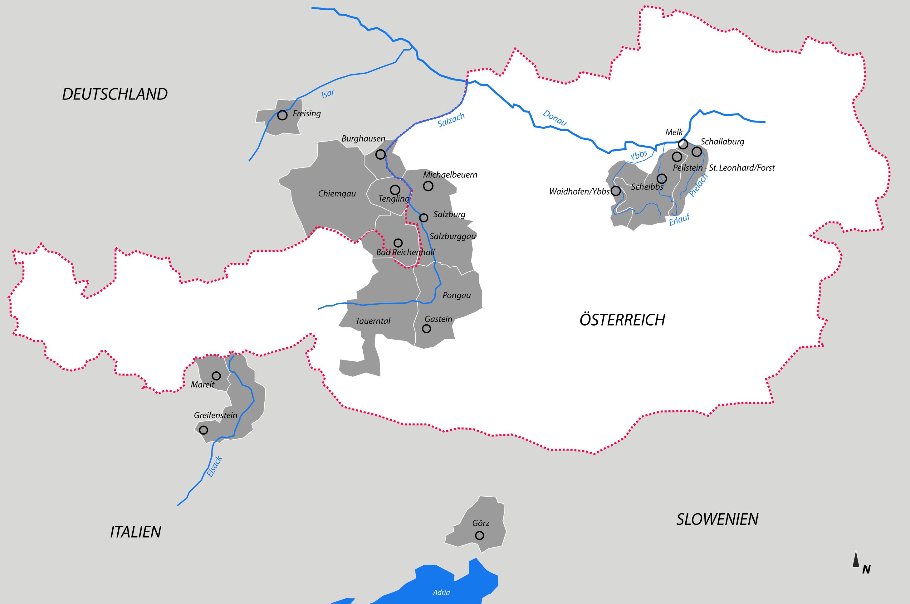 map peilsteiner